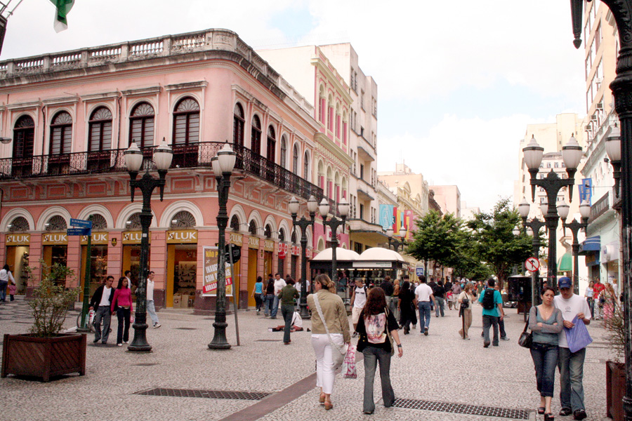 November the 15th Street - also known as Flower Street - is the first pedestrian street in Brazil, inaugurated in 1972, with well-tended pots of flowers and bars and confectioners in hundred-year-old buildings.